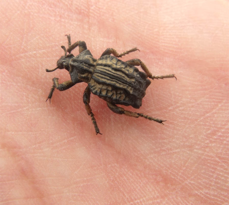 Brachycerus undatus photographed near Trasubbie creek (Scansano, Grosseto province, Tuscany, central Italy) in a garrigue habitat. Photo by Marcelli Massimiliano.